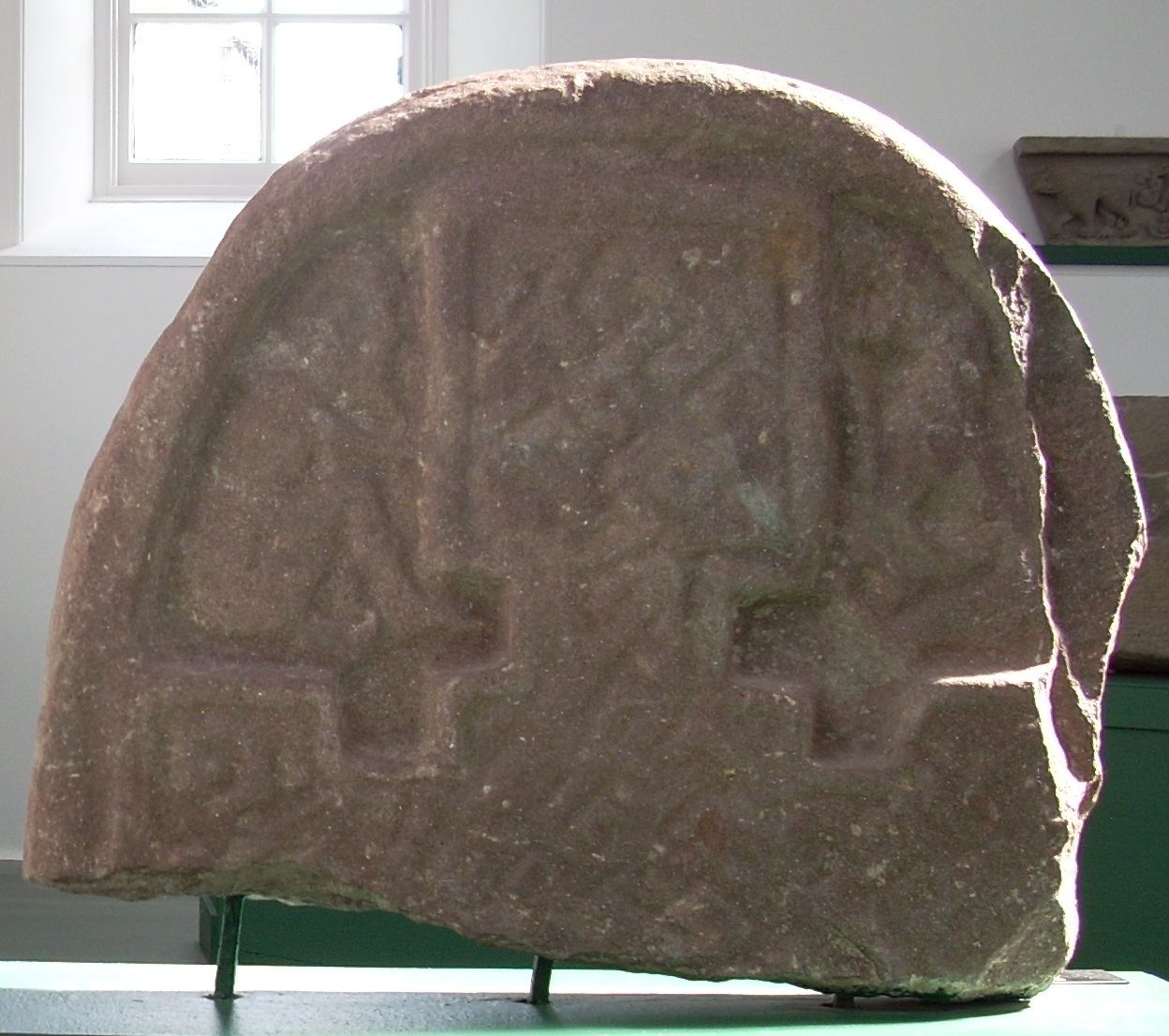 The front of Meigle 7 Pictish stone in the Meigle Sculptured Stone Museum, Scotland.